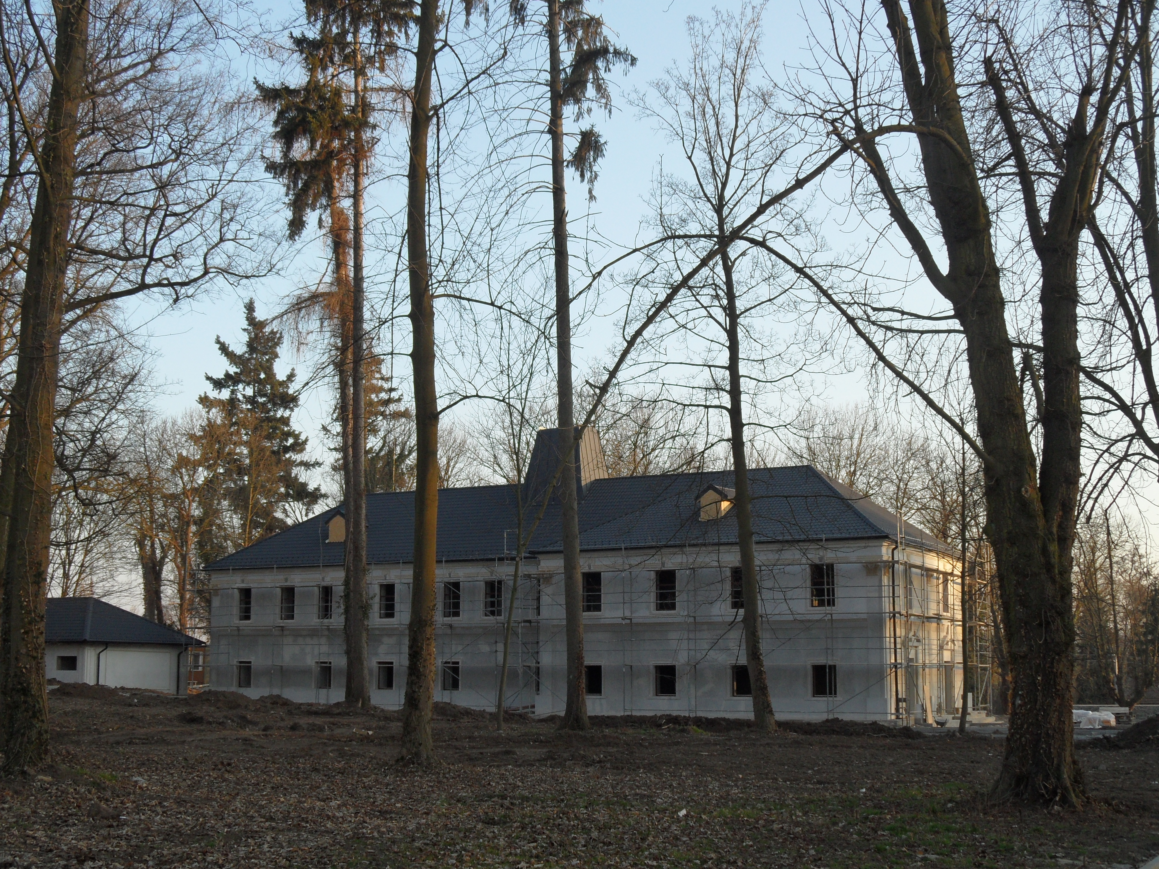 Polní Voděrady A. Chateau in Reconstruction. Kolín District, the Czech Republic.